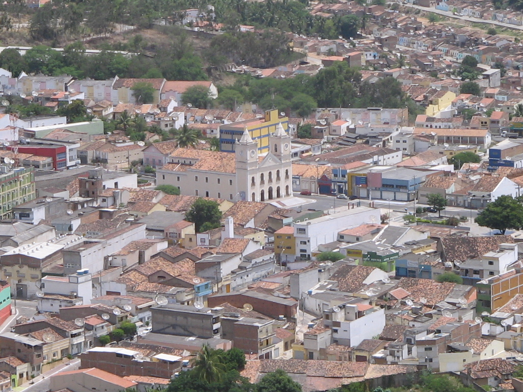 My city... :D